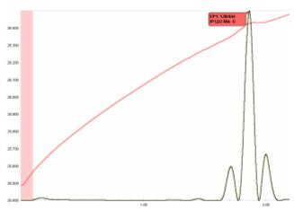 Fig. 18. Thermometric titration of non-ionic surfactant in formulation containing anionic surfactant. (author: Lab Rat19410